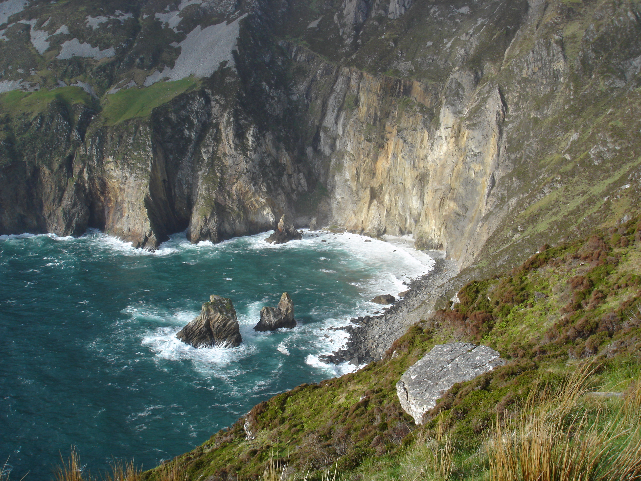 Slieve_League eastern end, County Donegal, Ireland